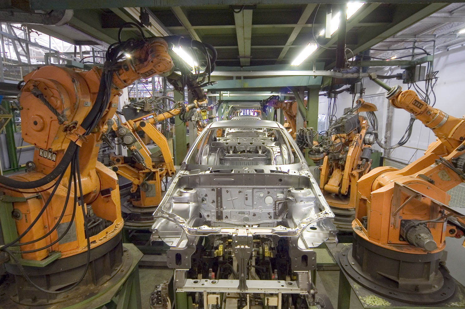 1983 Industrial Robots KUKA IR160/60, 601/60